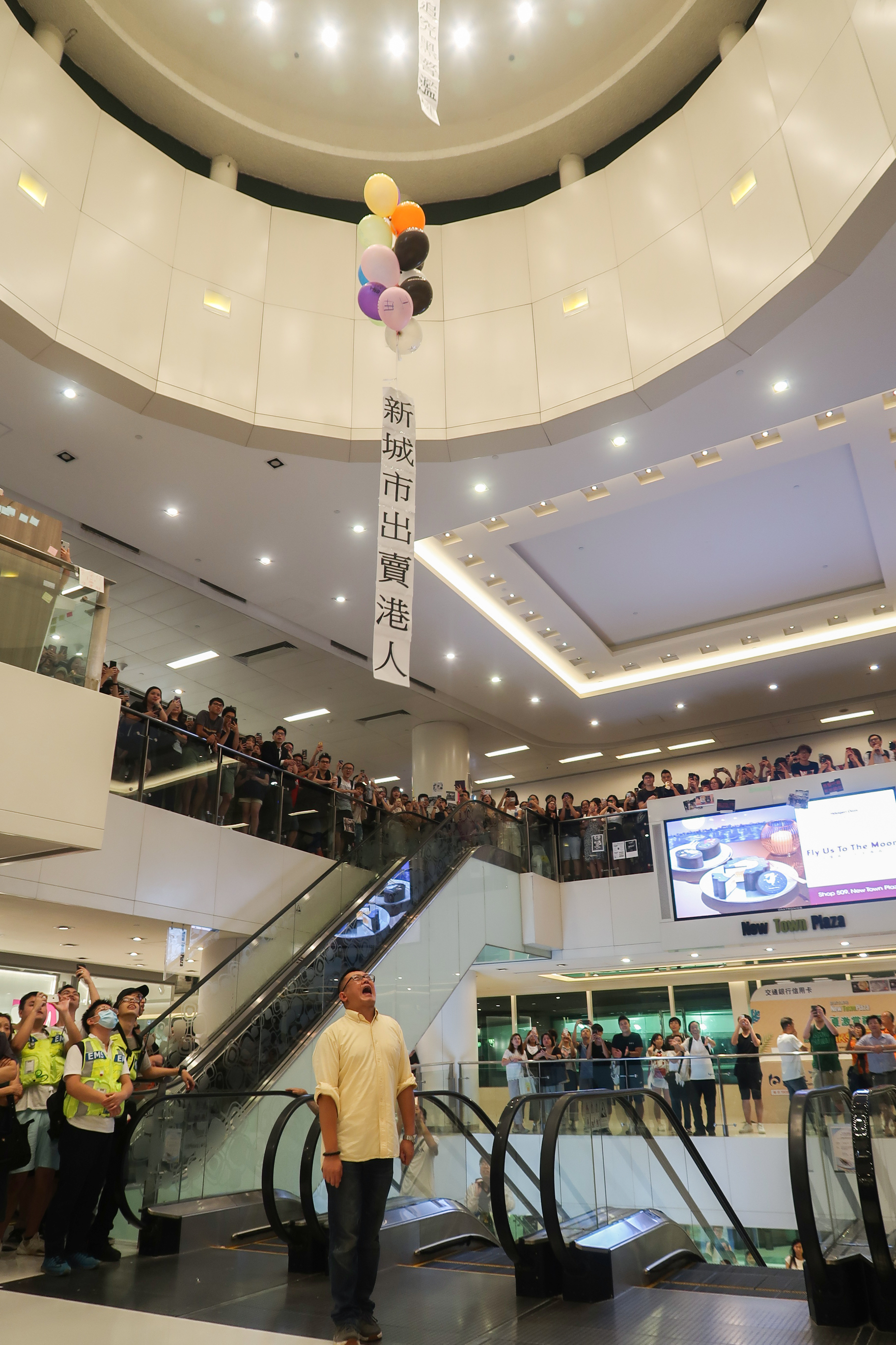 Jacky Lim Release Balloon in New Town Plaza